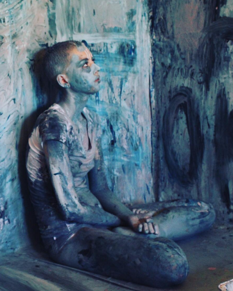 Art exhibition "Dis/Connect, 2015". Illma live streamed on Youtube using the audiences comments as inspiration to paint to represent the way a mind thinks with anxiety.